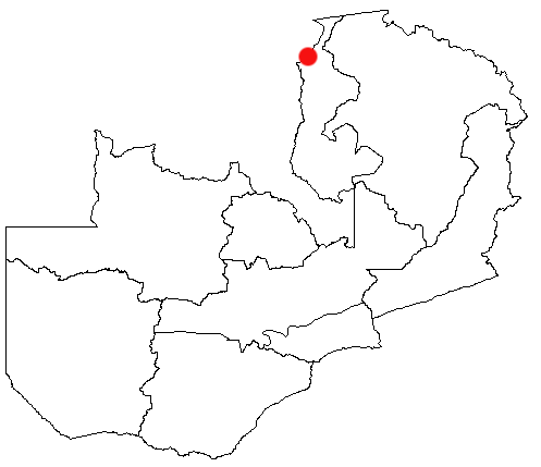 Nchelenge, Zambia Location Map; created with the GIMP. Made by User:Acntx.